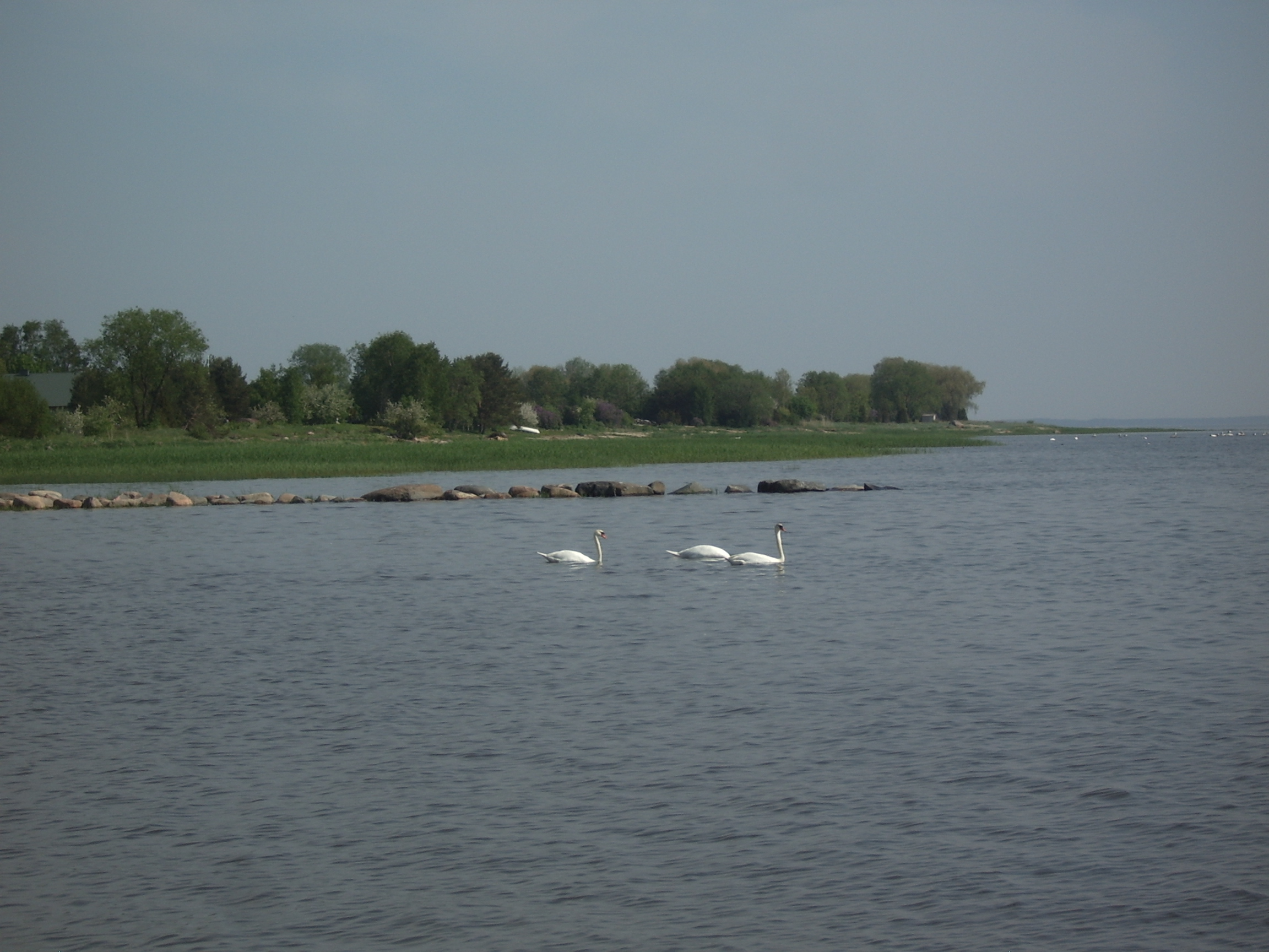 A look from Ojako guesthouse, Marksa village, Audru Commune, Pärnu County, Estonia. Swans on the sea.